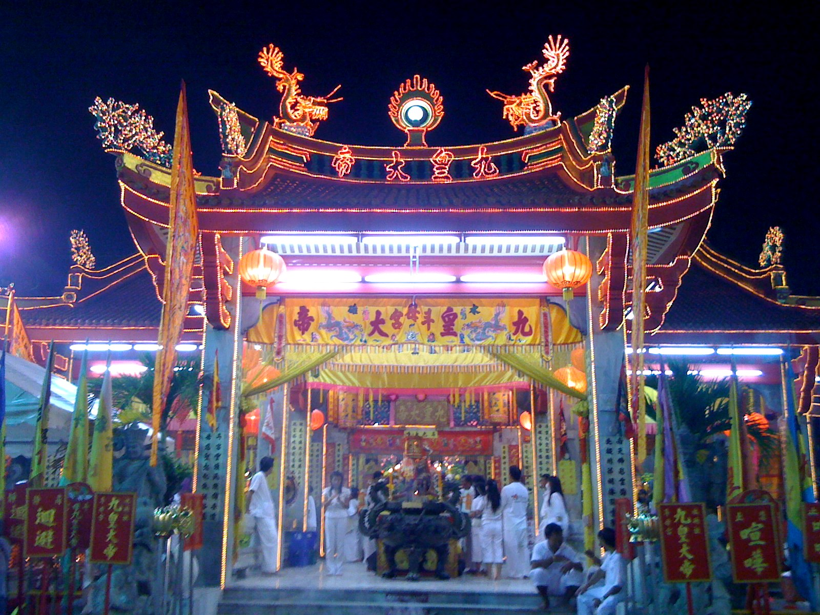 Jui Tui Shrine